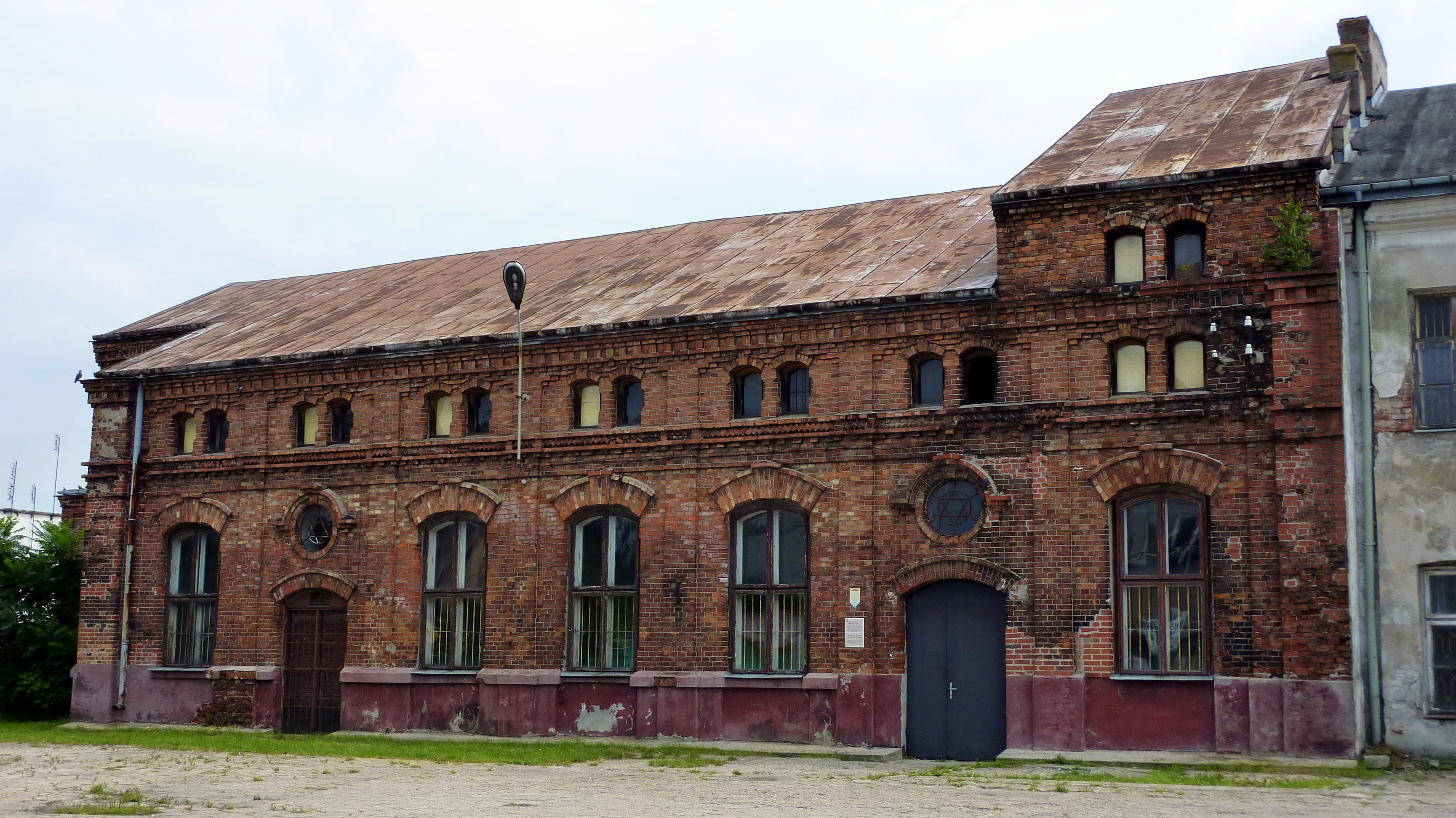 Synagogue in Góra Kalwaria, Pijarska 10/12